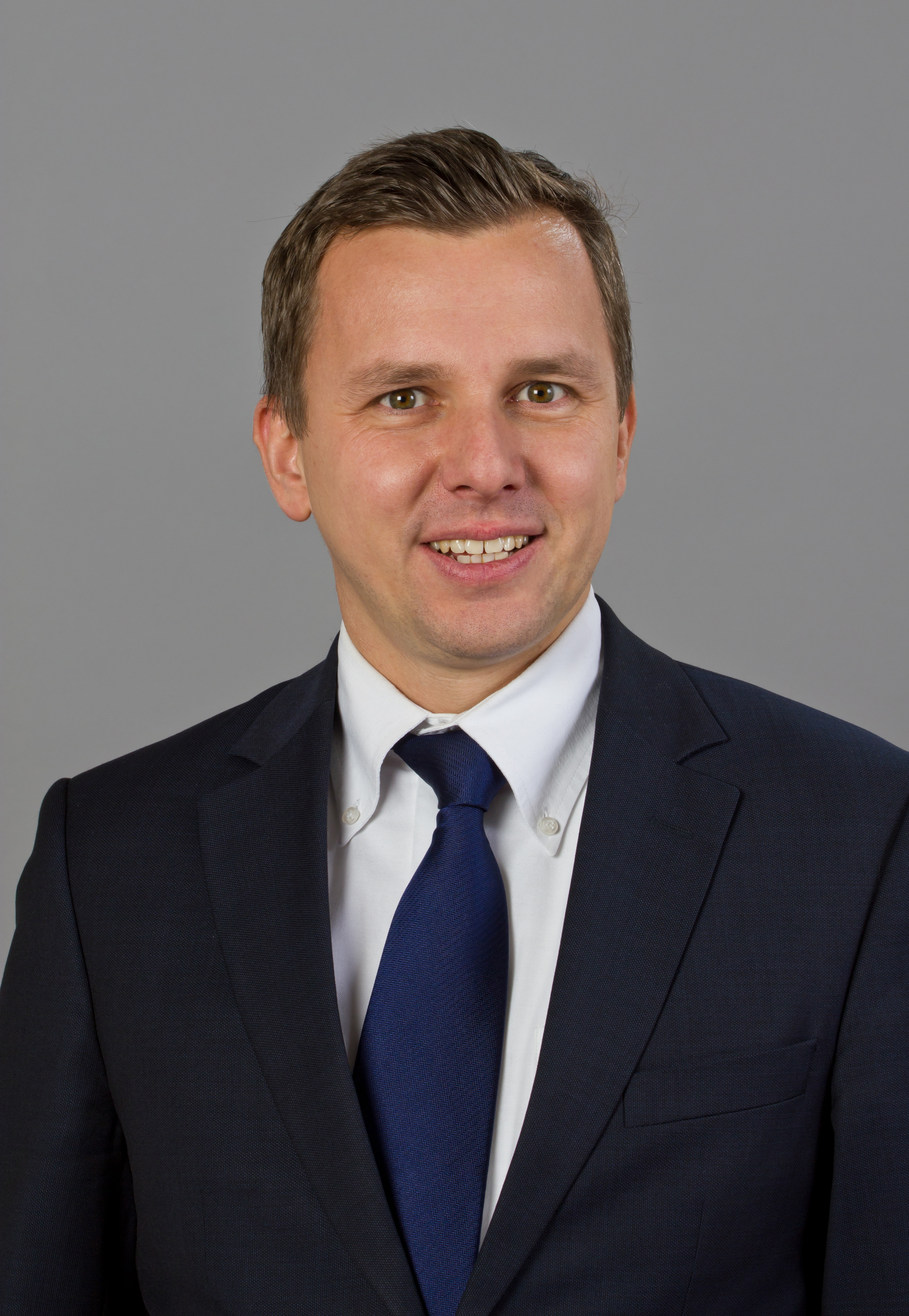 Alexander J. Herrmann, politician from Germany, member of Abgeordnetenhaus of Berlin (as of 2013)